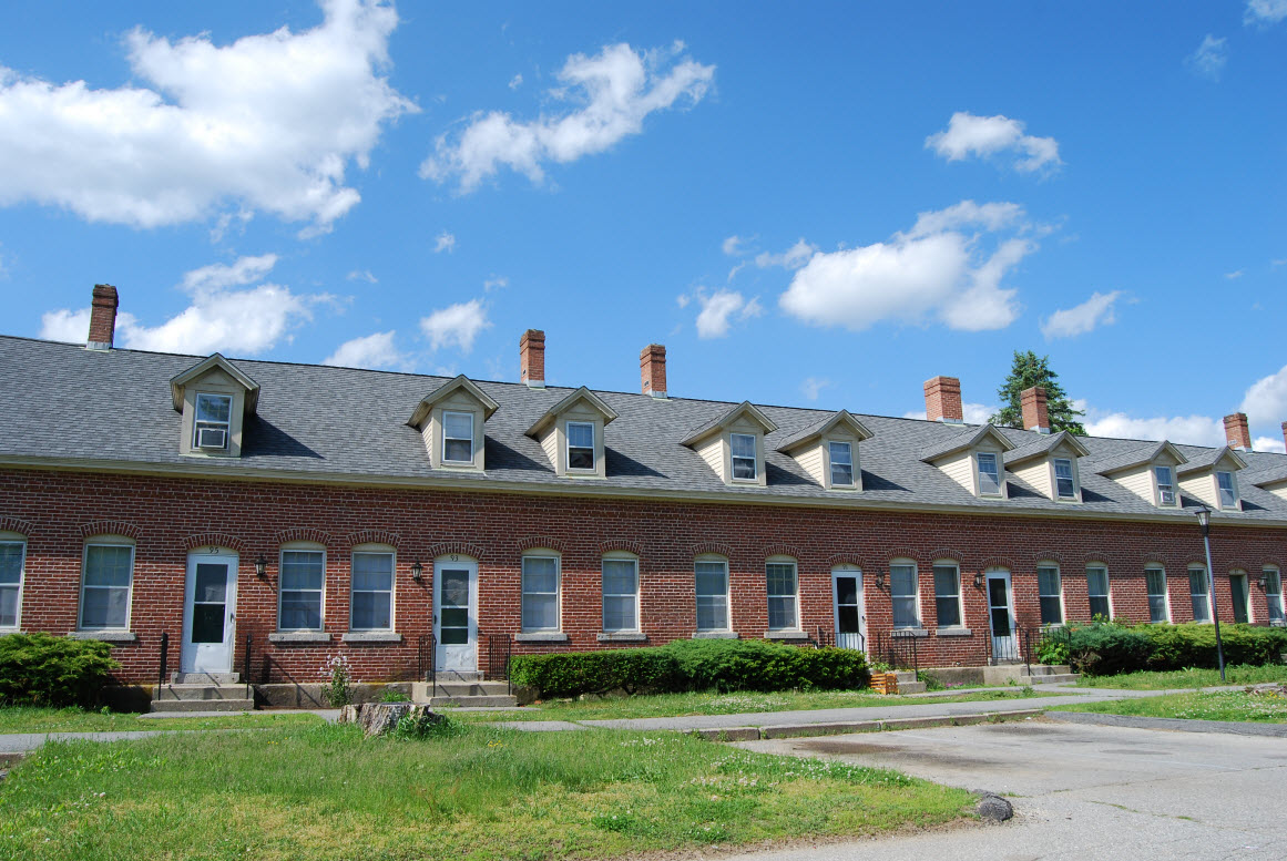 Quebec Square Historic mill worker housing, East Brooklyn, Connecticut